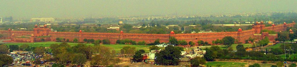 The Red Fort was the palace for Mughal Emperor Shah Jahan's new capital, Shahjahanabad, the seventh Muslim city in the Delhi site. He moved his capital from Agra in a move designed to bring prestige to his reign, and to provide ample opportunity to apply his ambitious building schemes and interests. The Red Fort stands at the eastern edge of Shahjahanabad, and gets its name from the massive wall of red sandstone that defines its four sides. The wall is 1.5 miles (2.5 km) long, and varies in height from 60ft (16m) on the river side to 110 ft (33 m) towards the city. Measurements have shown that the plan was generated using a square grid of 82 m. The fort lies along the Yamuna River, which fed the moats that surround most of the wall. The wall at its north-eastern corner is adjacent to an older fort, the Salimgarh, a defense built by Islam Shah Sur in 1546.On 11 March 1783 Sikhs entered Red fort in Delhi and occupied the Diwan-i-Am.The Red Fort was conceived as a whole, and subsequent modifications have not taken away from the overall unity of the scheme. In the 18th century, however, occupiers and looters damaged some sections of the palace. After the Sepoy Mutiny of 1857, when the Fort was used as a headquarters, the British army occupied and destroyed many of its pavilions and gardens. A program for restoring the surviving parts of the fort began in 1903.